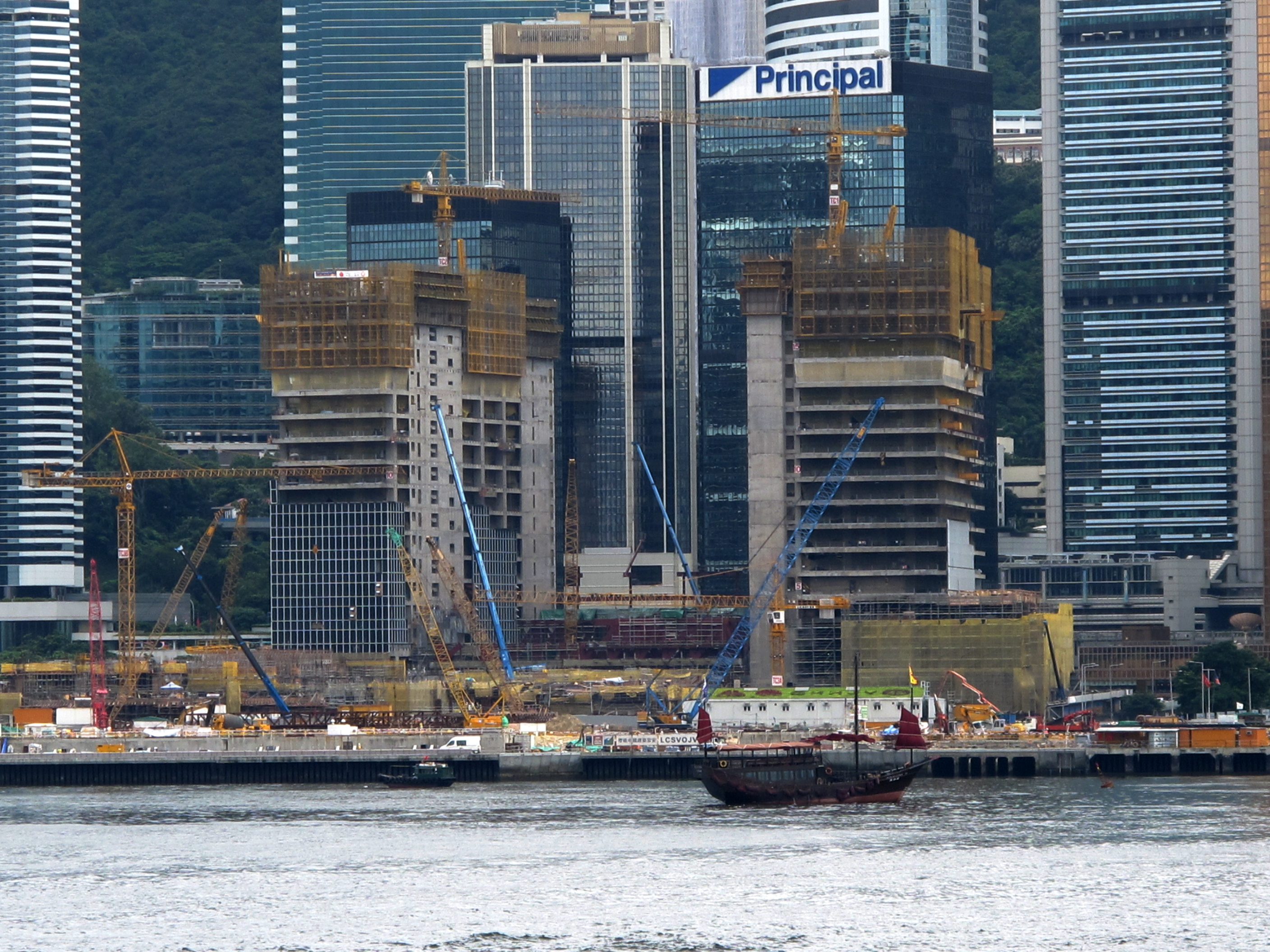 New Govn Headquarters Site 新政府總部大樓